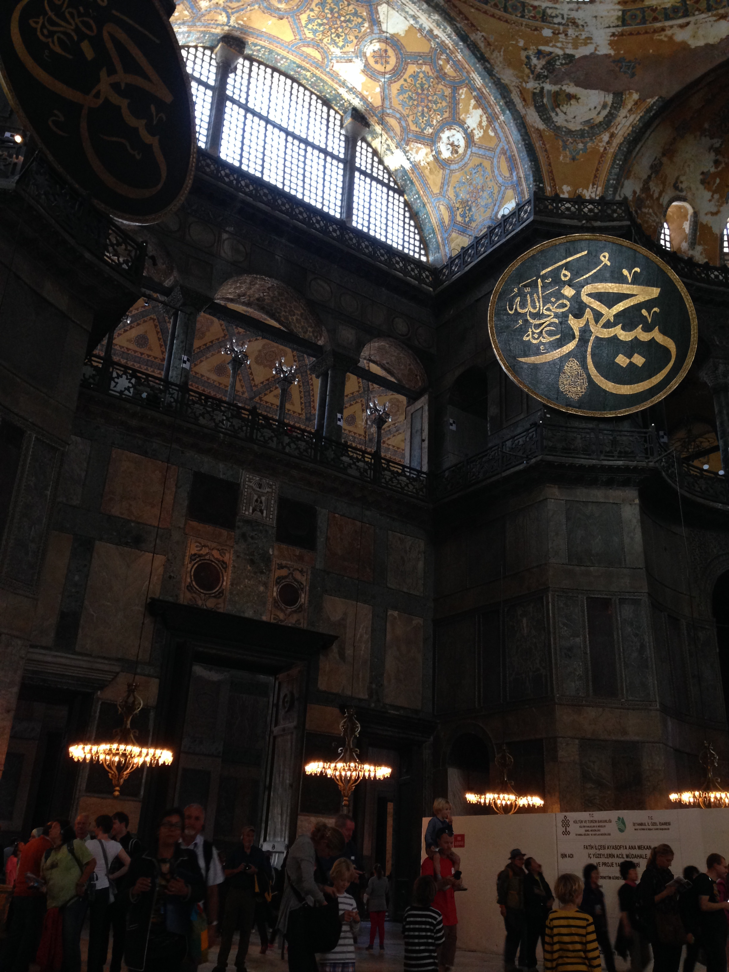 Hagia Sophia, Istanbul, Turkey.